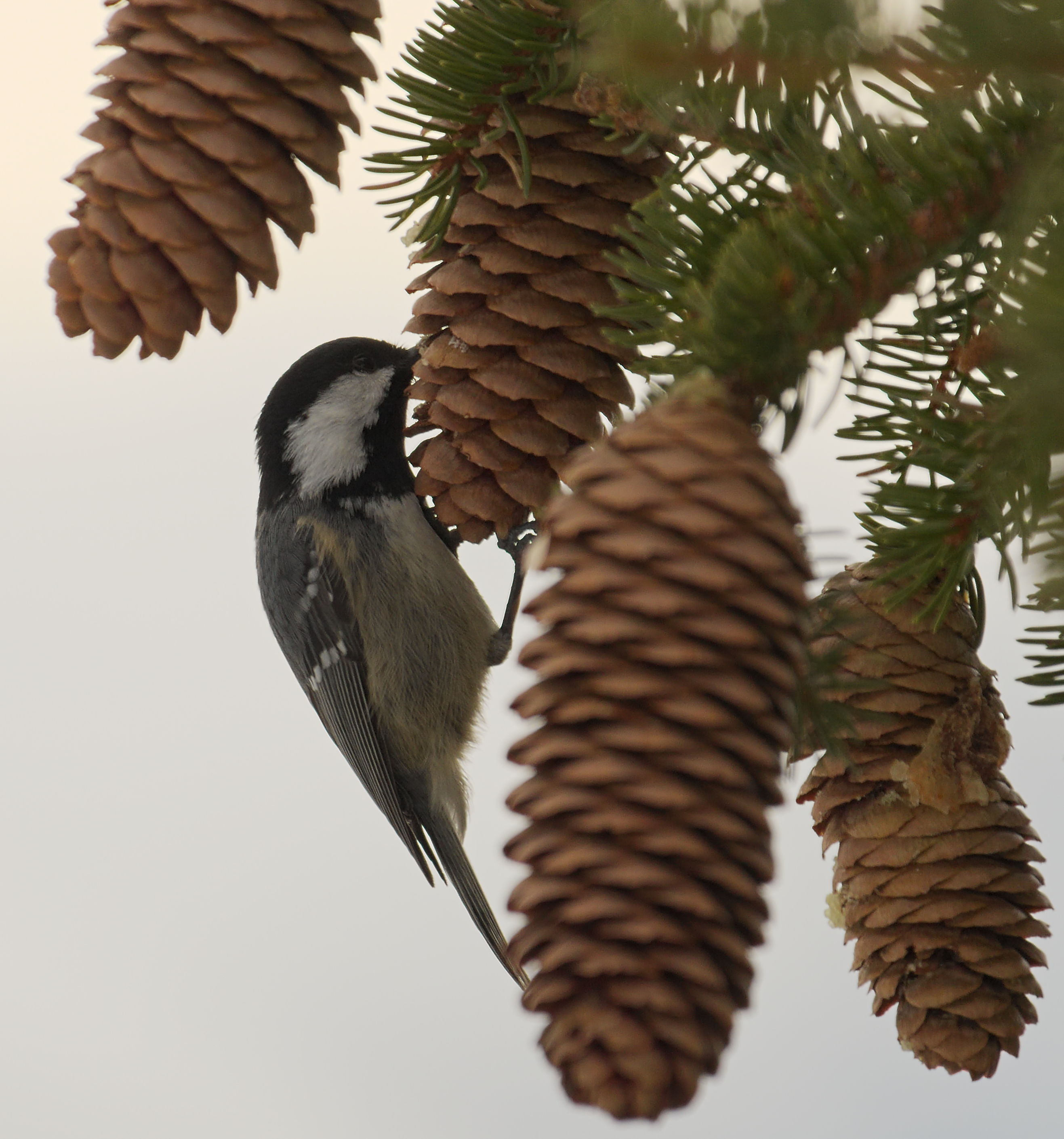 Paradiski, Coal tit - Periparus ater. Taken in La Plagne, Champagny-en-Vanoise, Savoie, France.